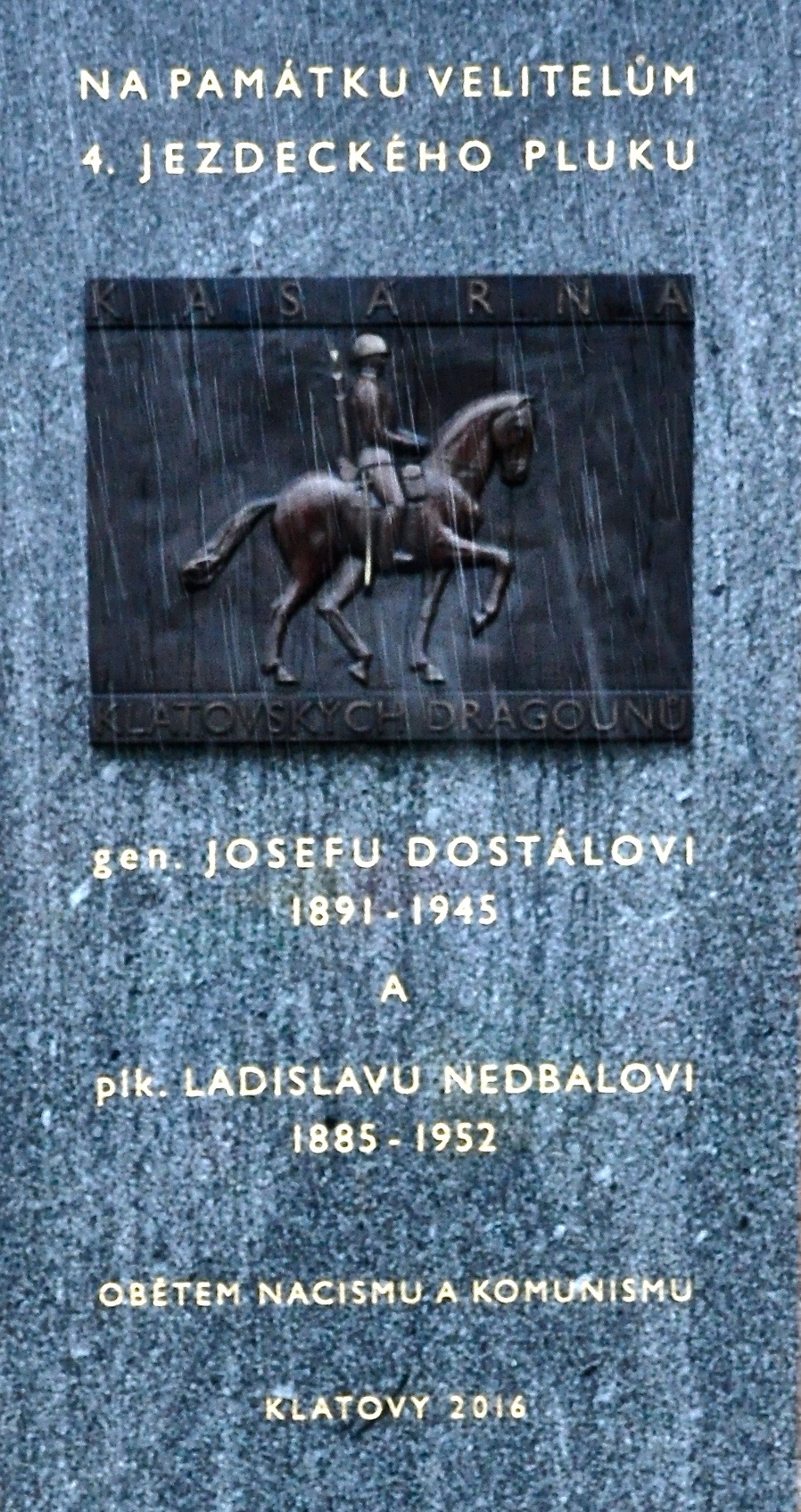 Memorial 4th Cavalry Regiment Klatovy